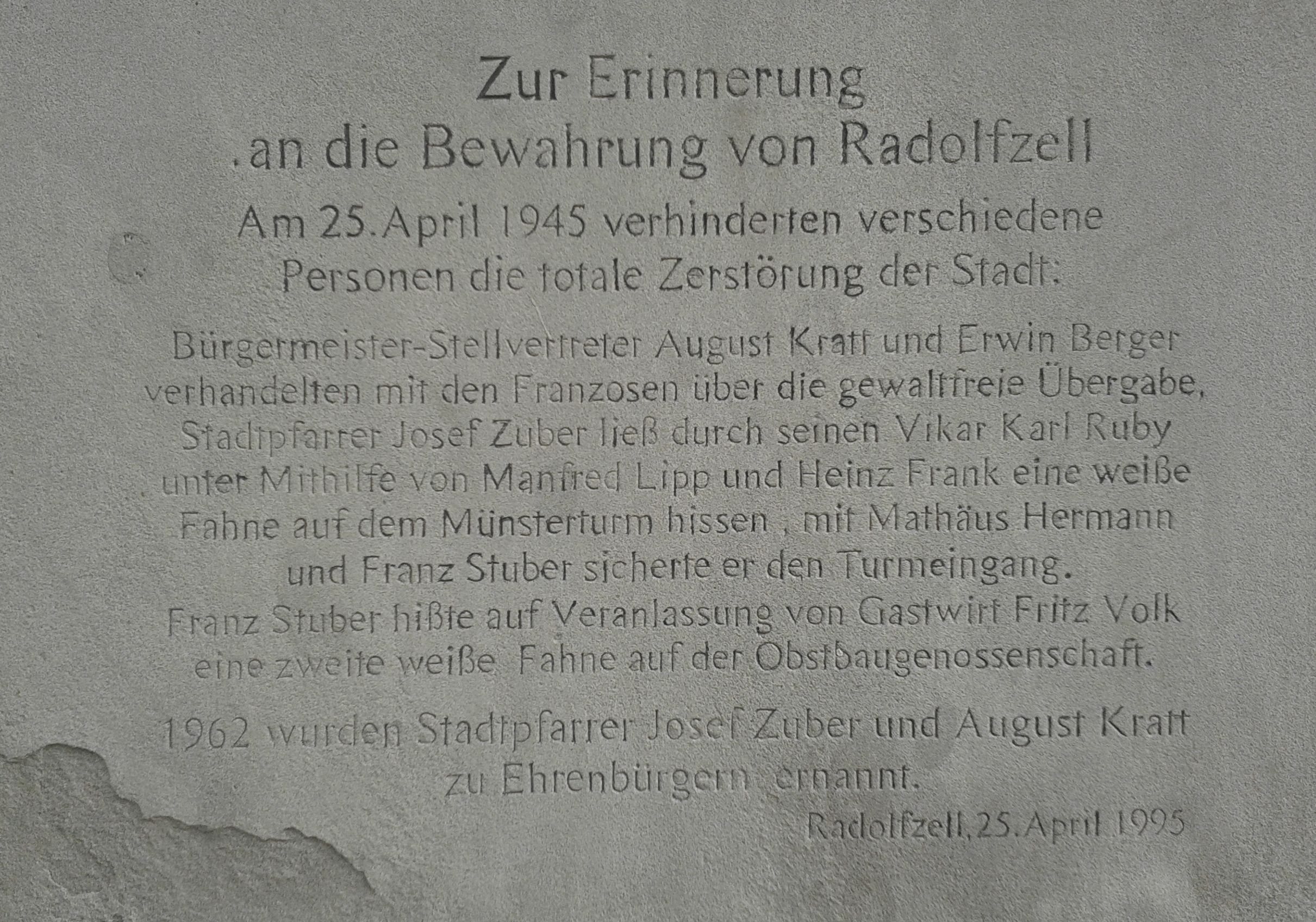 Memorial Plaque - Fountain at the Church, Radolfzell am Bodensee